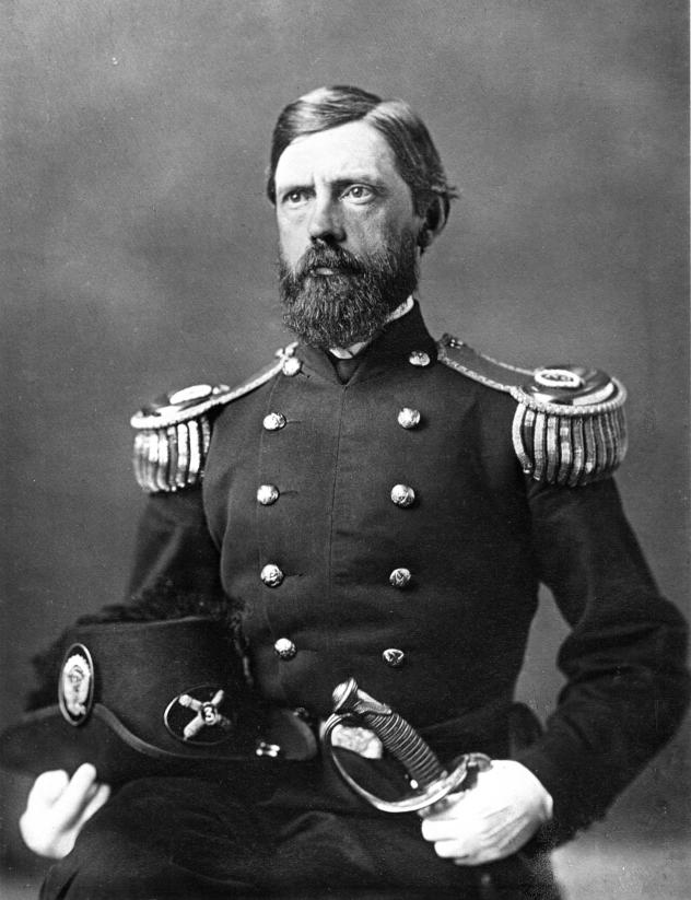 Captain & Brevet Major (later Major General) John F. Reynolds of the 3rd U.S. Artillery Regiment.